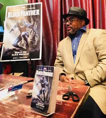 Jesse J. Holland is the author of Black Panther: Who Is the Black Panther? He also wrote Star Wars: The Force Awakens -- Finn's Story and The Invisibles: The Untold Story of African American Slaves in the White House.